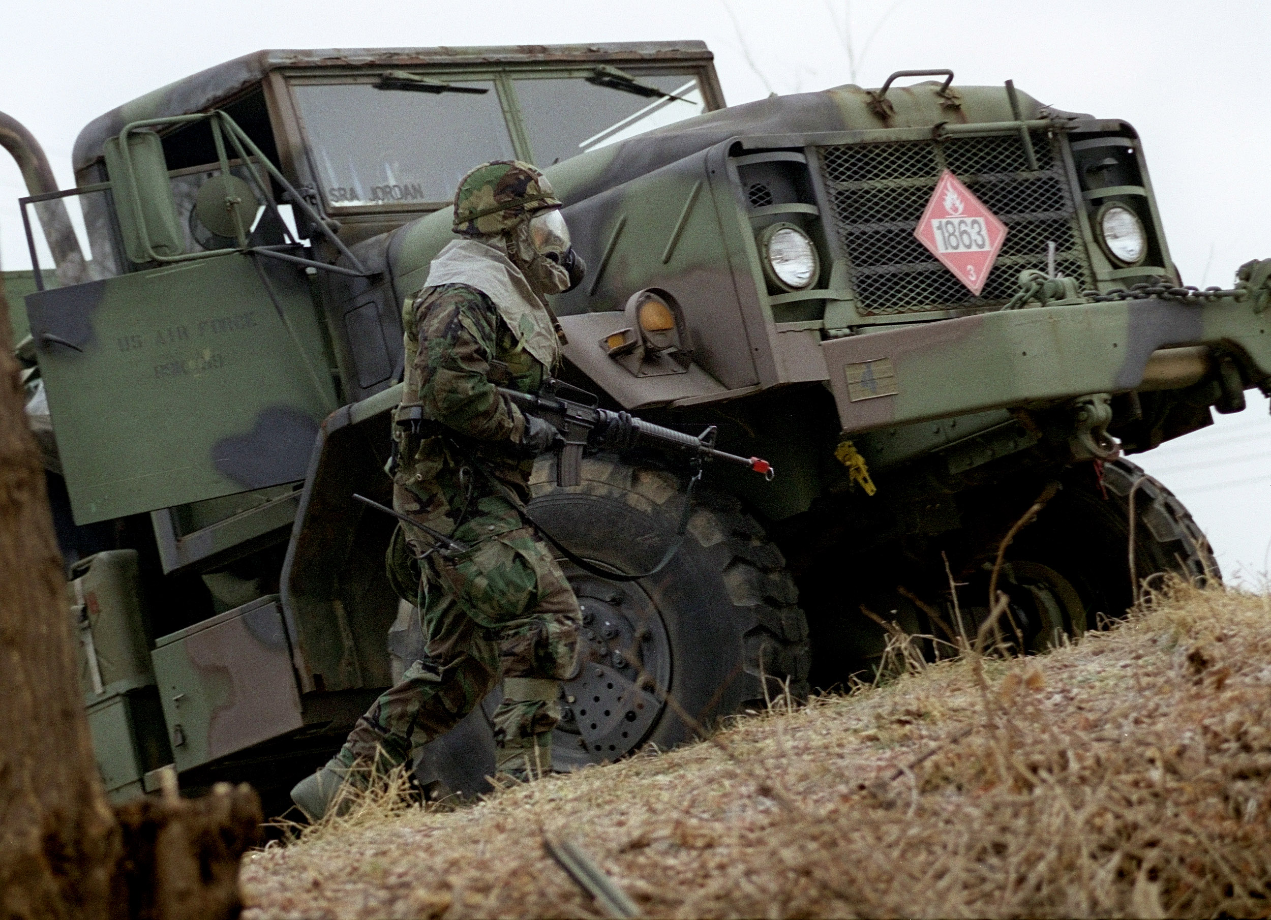 A member of the U.S. Air Force 51st Security Forces Squadron moves up a hillside as he conducts a search through an industrial facility on Jan. 7, 1999, as part of combat employment readiness exercise Beverly Midnight 99-1, at Osan Air Base, Republic of Korea. The exercise is designed to test people's ability to carry out their wartime tasking, air base ground defense, and ability to recover after attacks. During the exercise, personnel quickly become accustomed to working and resting while wearing the Ground Crew Ensemble and its MCU-2P chemical/biological protective mask to protect themselves from chemical warfare agents.